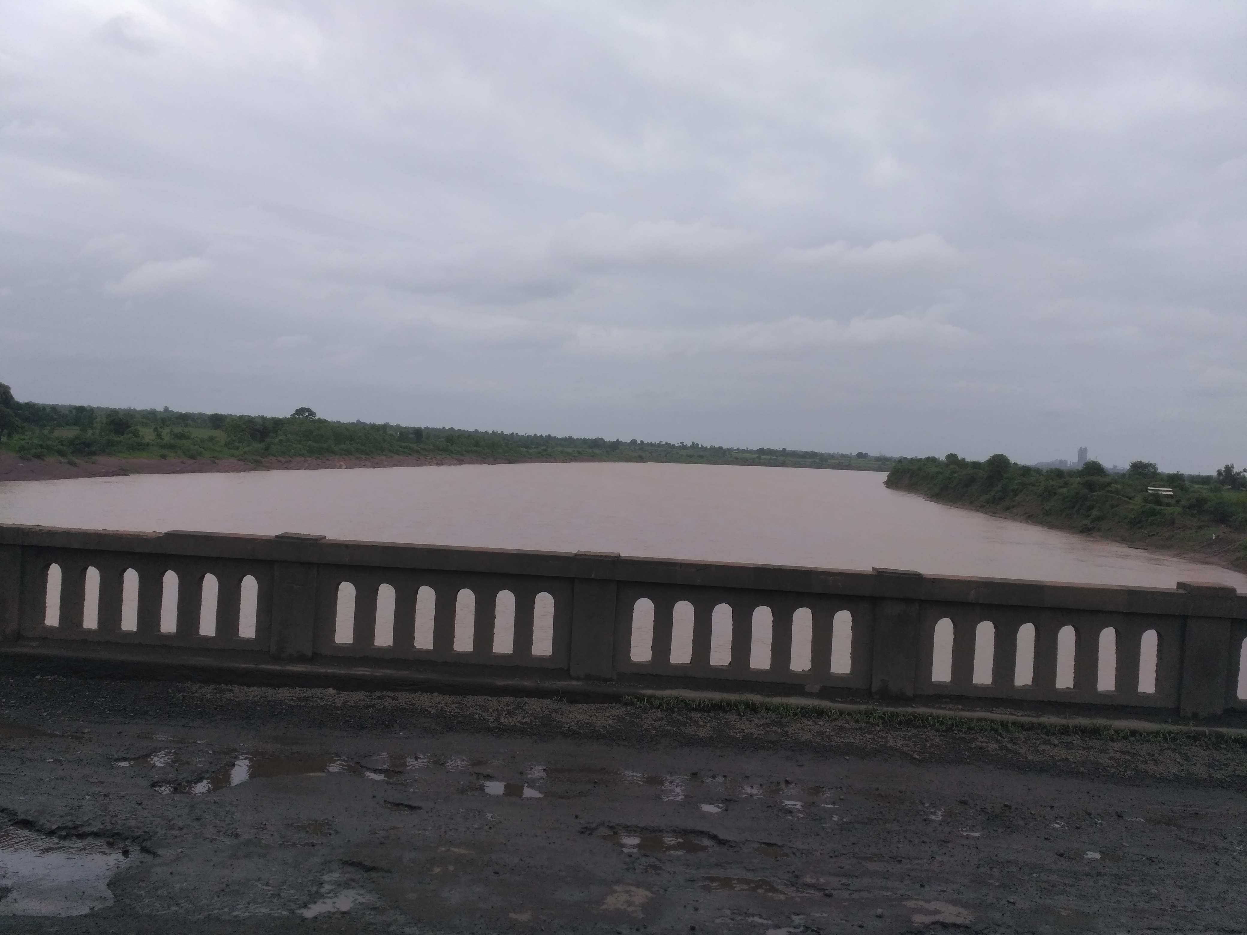 Flood during monsoon July2018